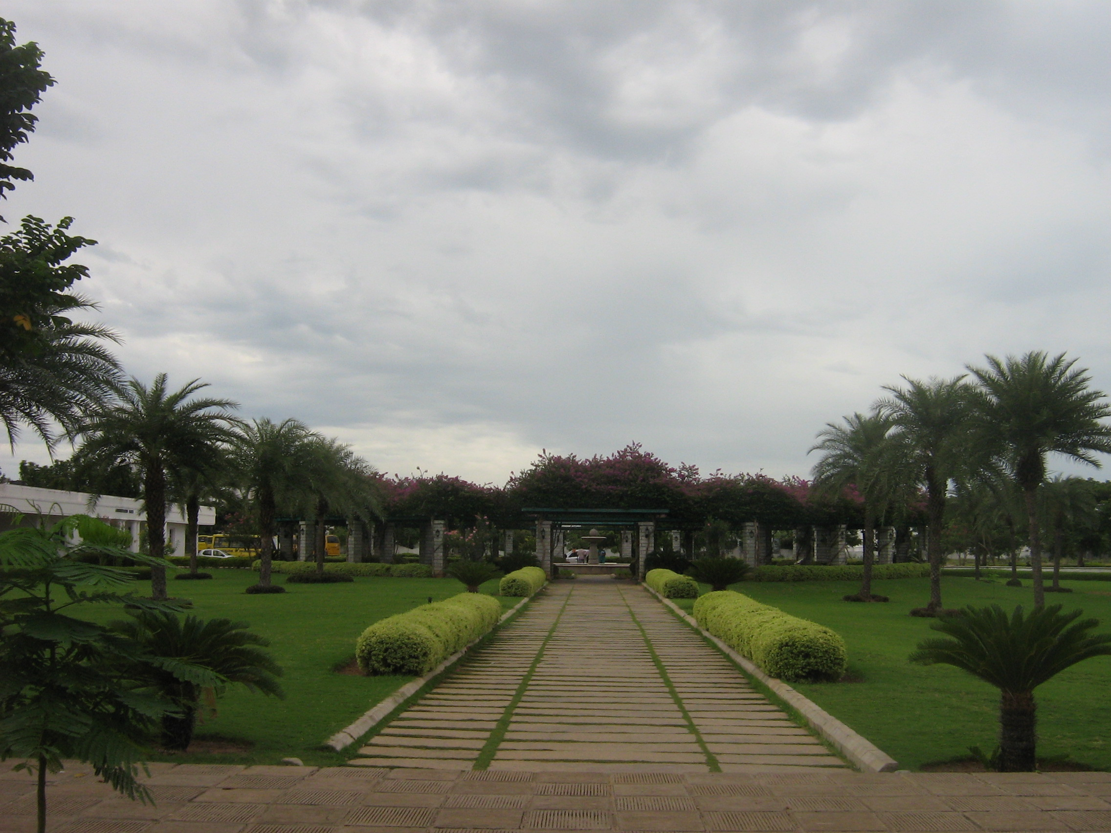 Entrance from ECE Block